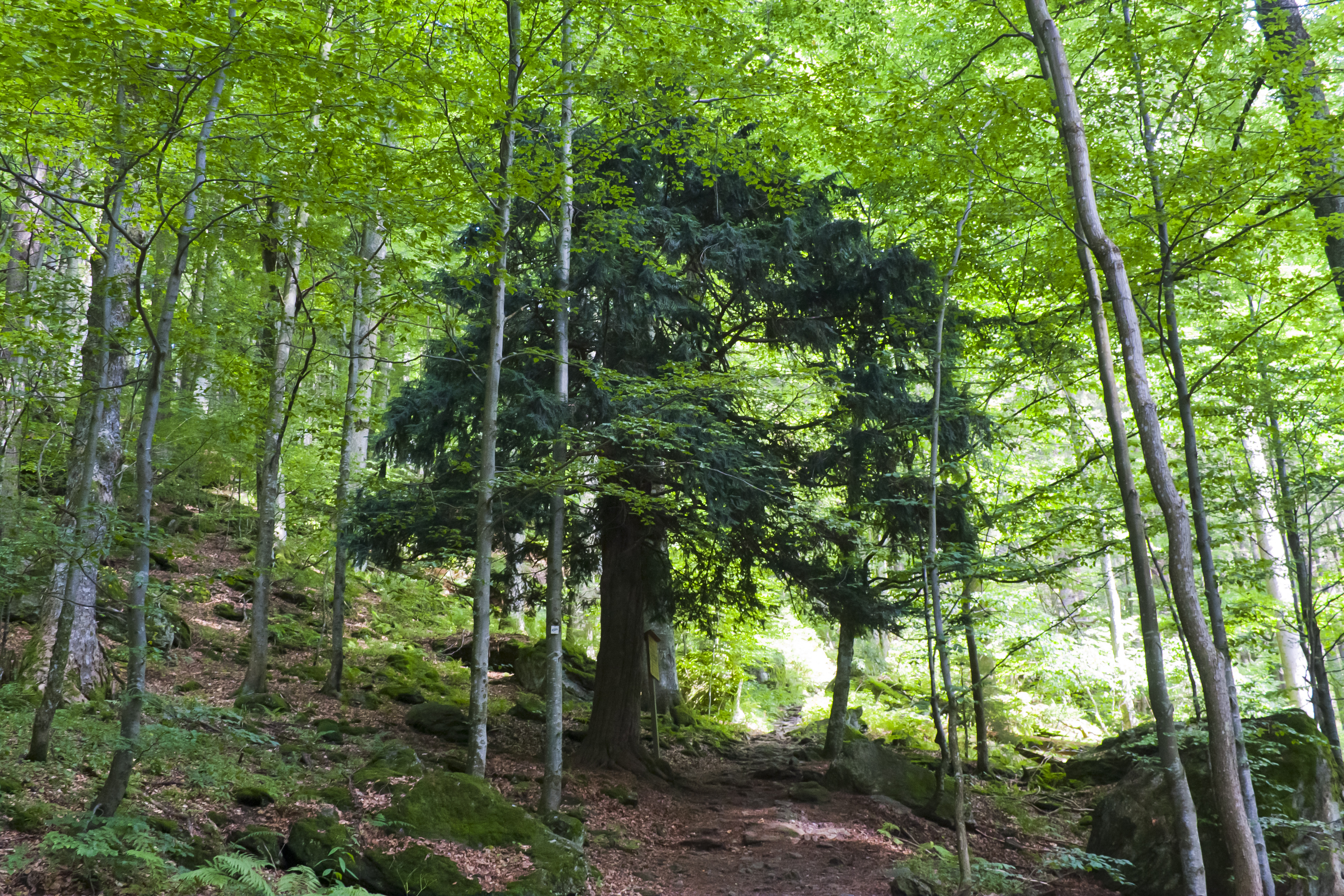 Taxus baccata in the pristine forest area Mittelsteighütte, Bavarian Forest Nationalpark.